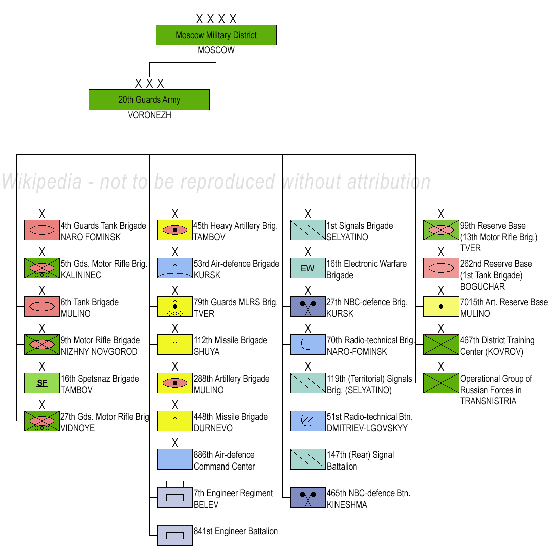 Russian Ground Forces Moscow Military District Structure 2010